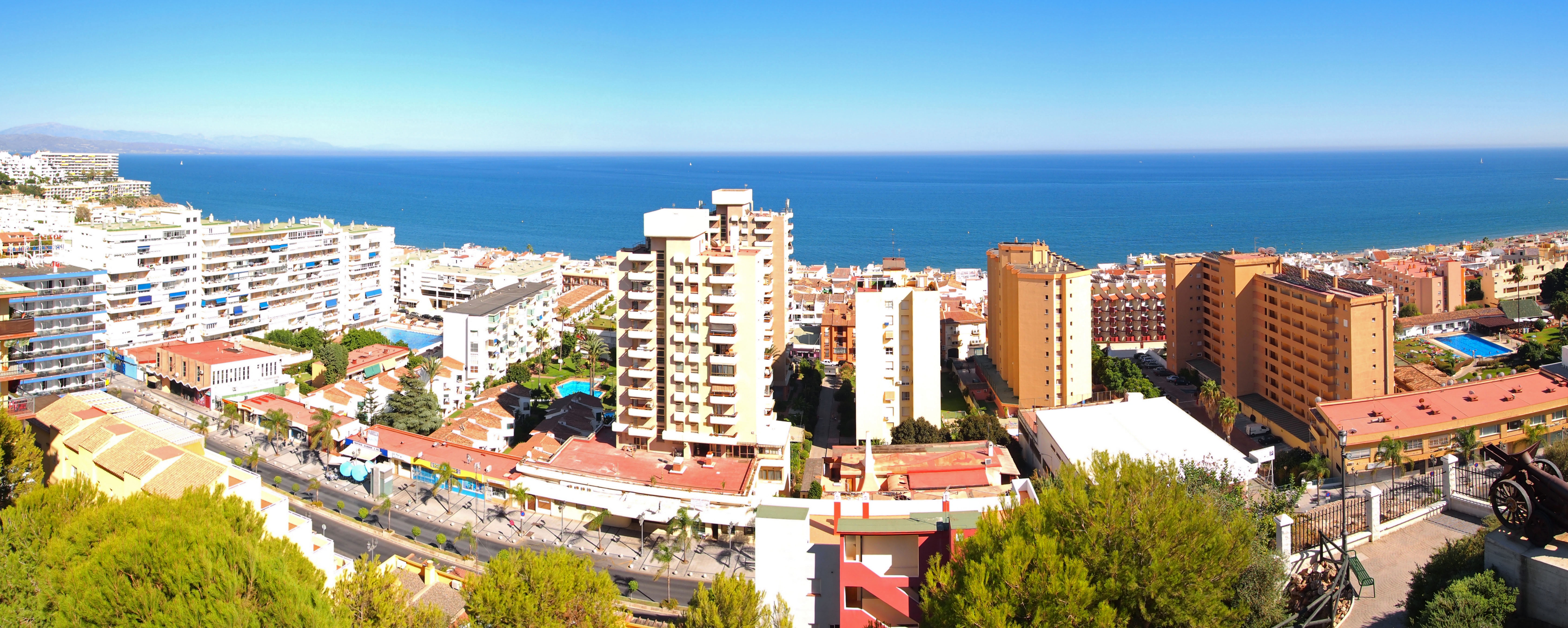 View from Torre Mirador towards east, Torremolinos. This photograph was taken with an Olympus E-PL1